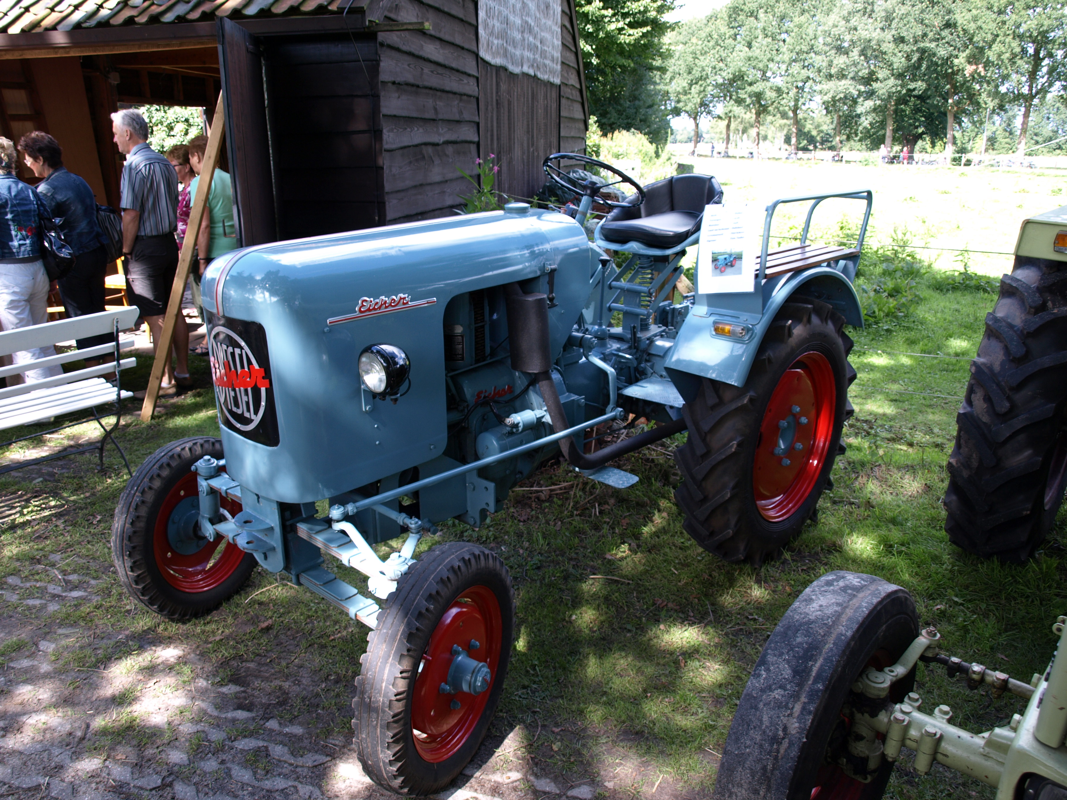 Eicher ED13, photographed at a show in the Dutch province Drenthe.